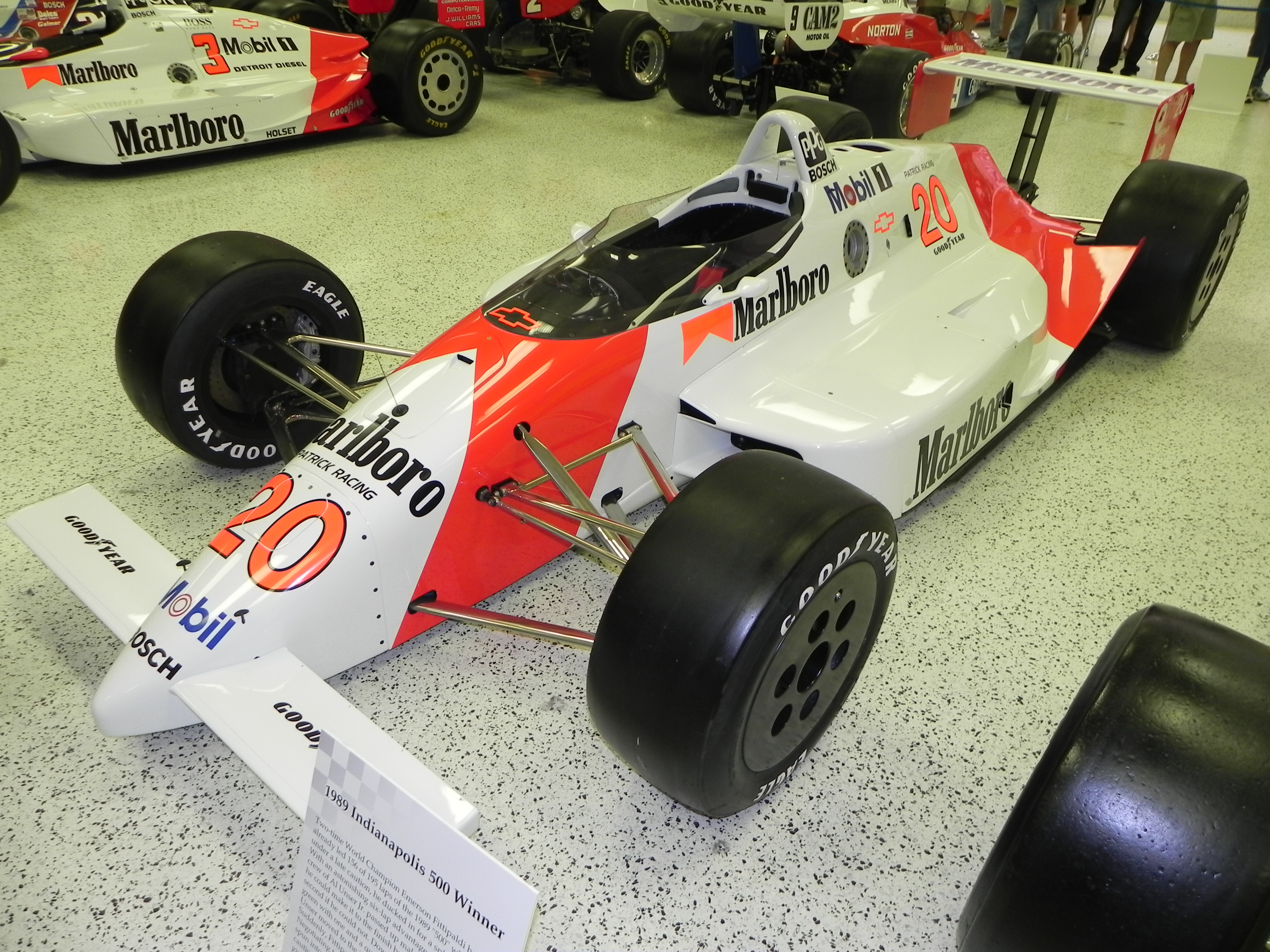 Image of the winning car of the 1989 Indianapolis 500 (Emerson Fittipaldi). Photo was taken at the Indianapolis Motor Speedway Hall of Fame Museum, during the month of May 2011, at the 100th Anniversary "Ultimate Indianapolis 500 Winning Car Collection."